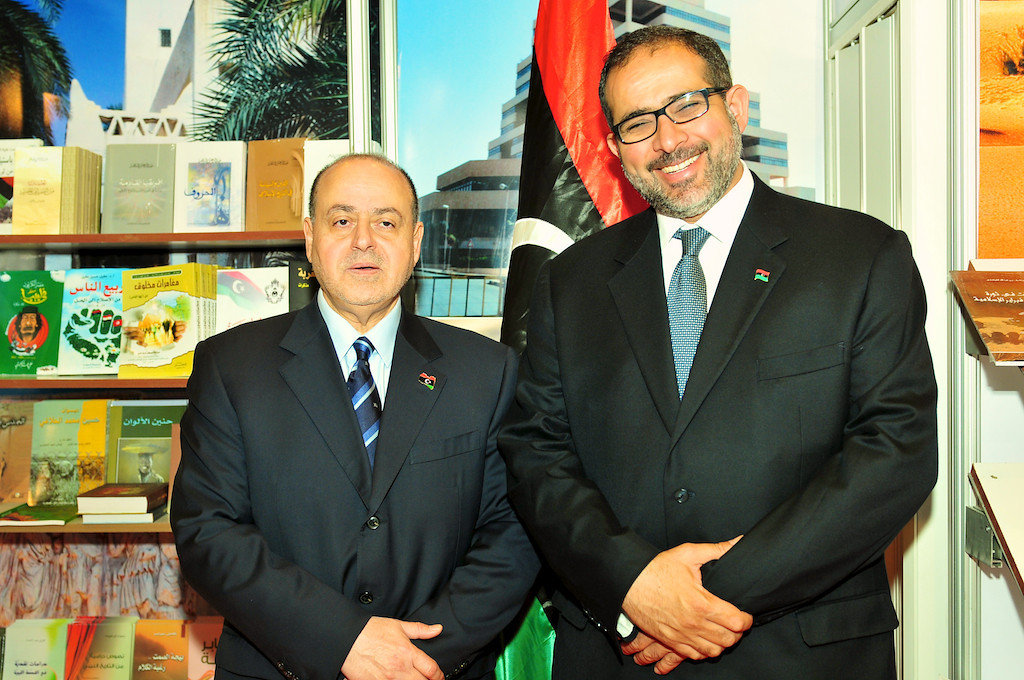 Libyan Minister of Culture, Dr Abdurrahman Habil, with Libyan Ambassador to the UAE, Dr Aref Ali Nayed, at the Libyan Ministry of Culture stall at the Abu Dhabi Book Fair 2012.